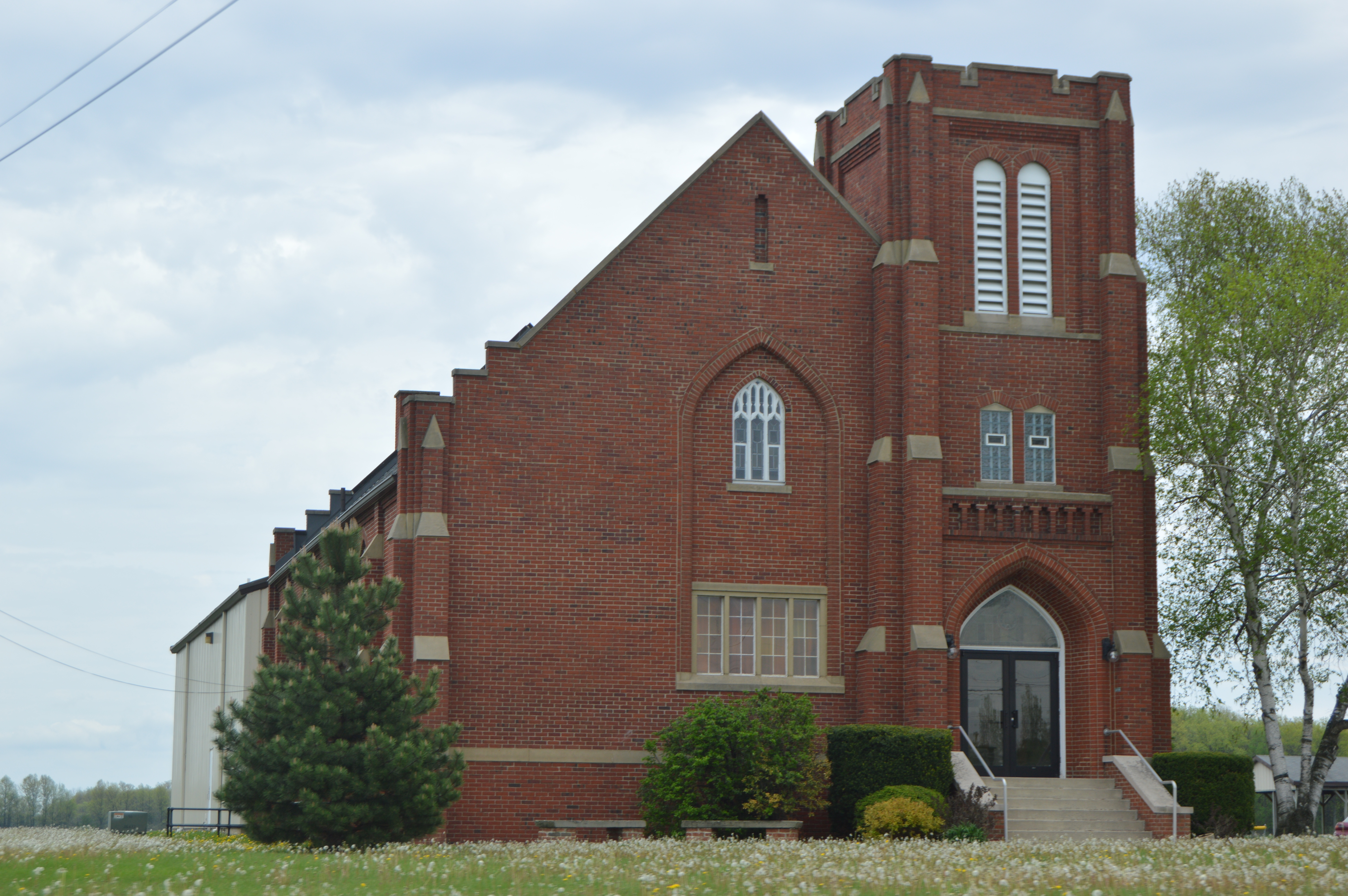 Front and northern side of the Collins United Methodist Church, located at 4290 Hartland Center Road at Collins in Townsend Township, Huron County, Ohio, United States.